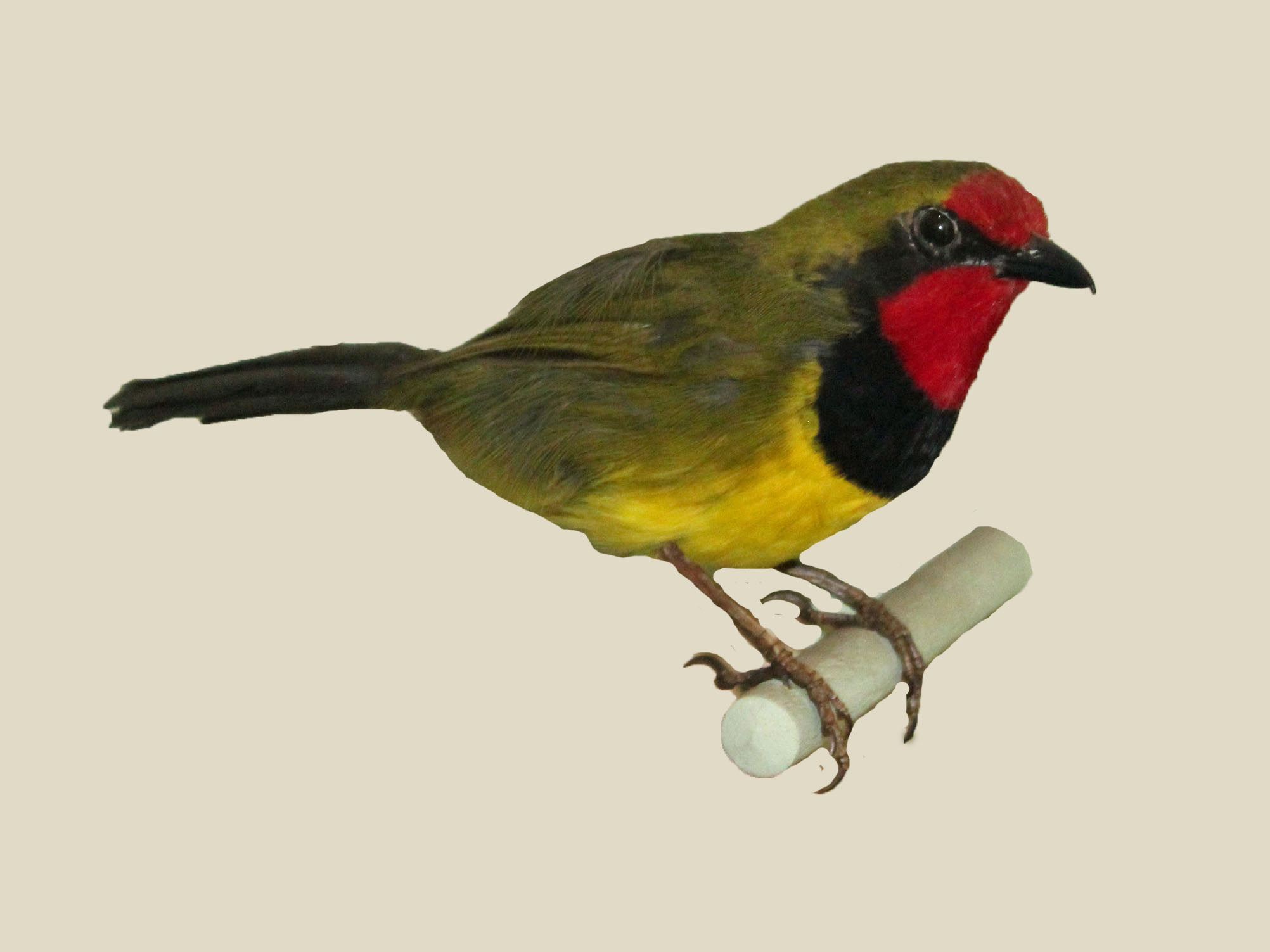 Doherty's Bushshrike (Telophorus dohertyi). Photograph of a specimen at Nairobi National Museum in Nairobi, Kenya.